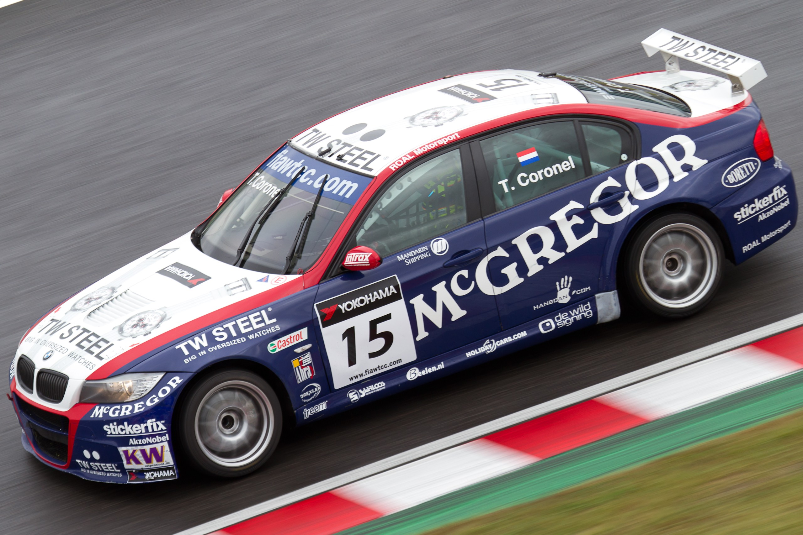 World Touring Car Championship 2011 Race of Japan: Tom Coronel (ROAL Motorsport) during the 1st practice session on Saturday.